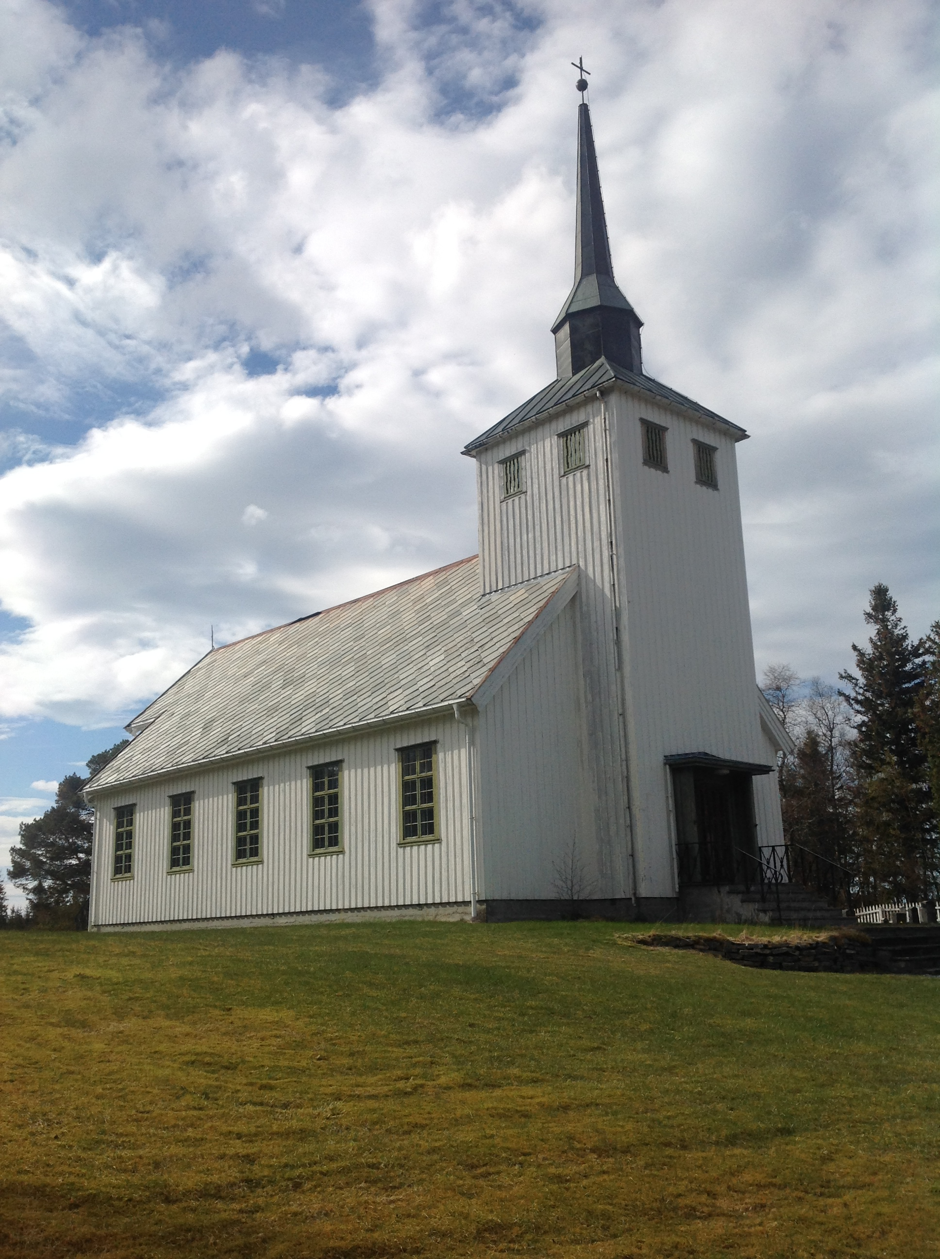 Salen Chapel in Fosnes, Nord-Trøndelag, Norway. Build 1953